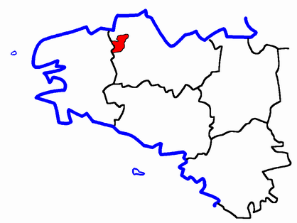 Description: Map for localisazion of cantons of Bretagne region in France Source: made by Hervé Tigier in april 2005 from another large map (published in 1990)